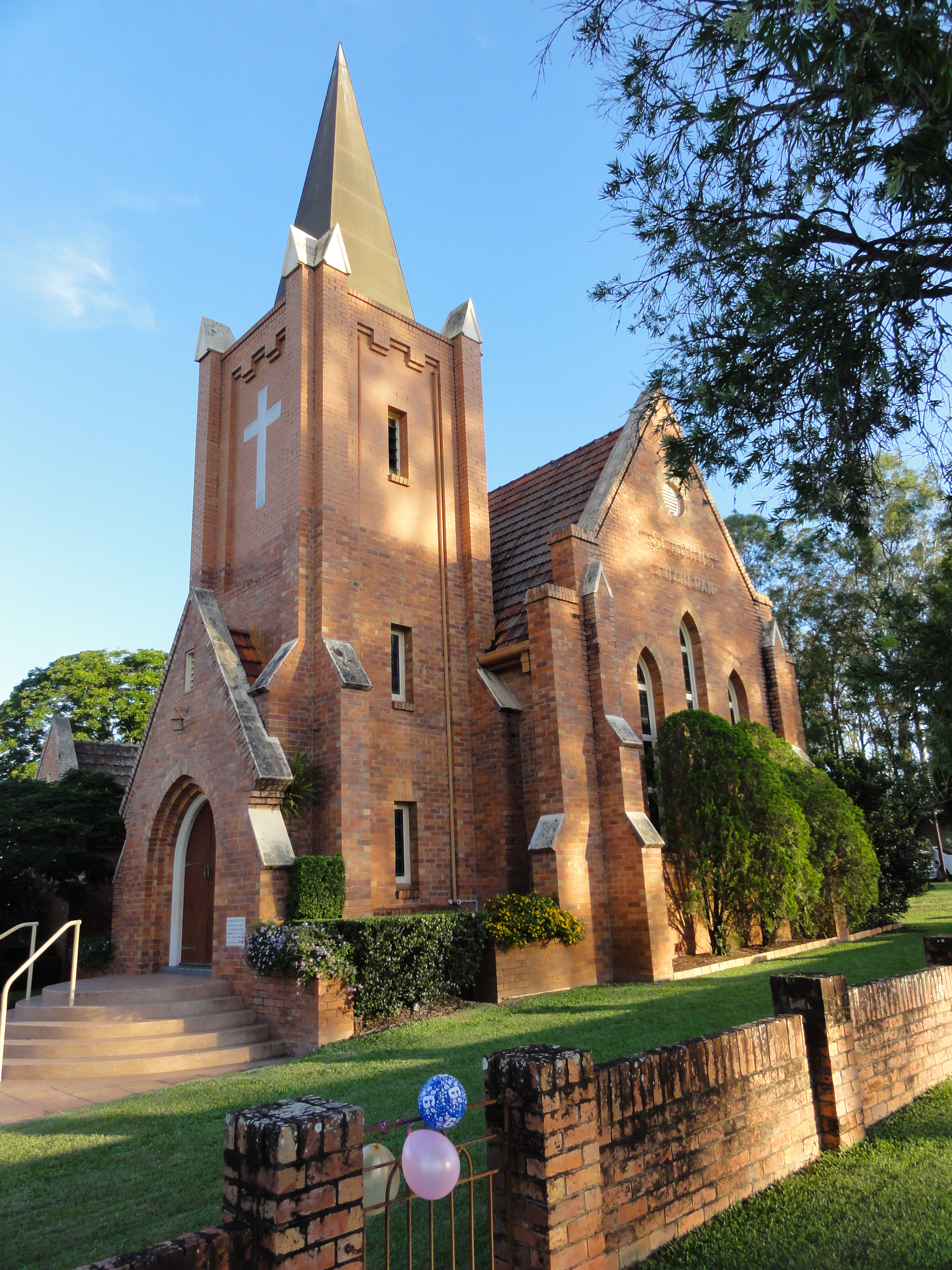 St Johns Lutheran Church, 24 Levington Road, Eight Mile Plains, 23 February 2013